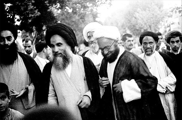 Sultan al-Wa'izin Shirazi